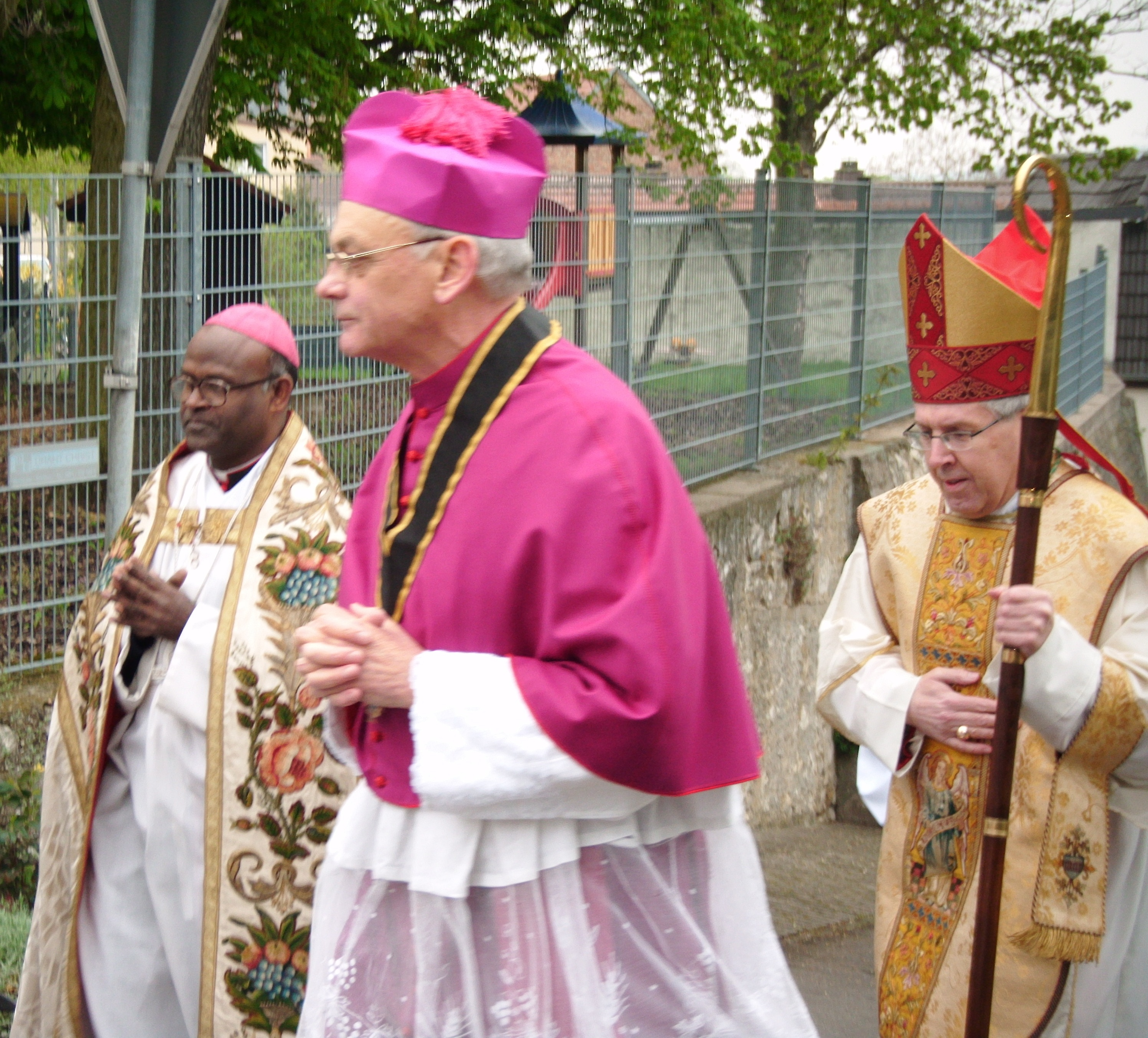 Czeslaw Kozon, Bishop von Copenhagen/Danmark (right), Msgr. Dr. Norbert Weis, Speyer, Germany (middle), Selvister Ponnumuthan Bishop of Punalur, Kerala, India (left), Philippsfest Zell, Germany, 1.5.2013